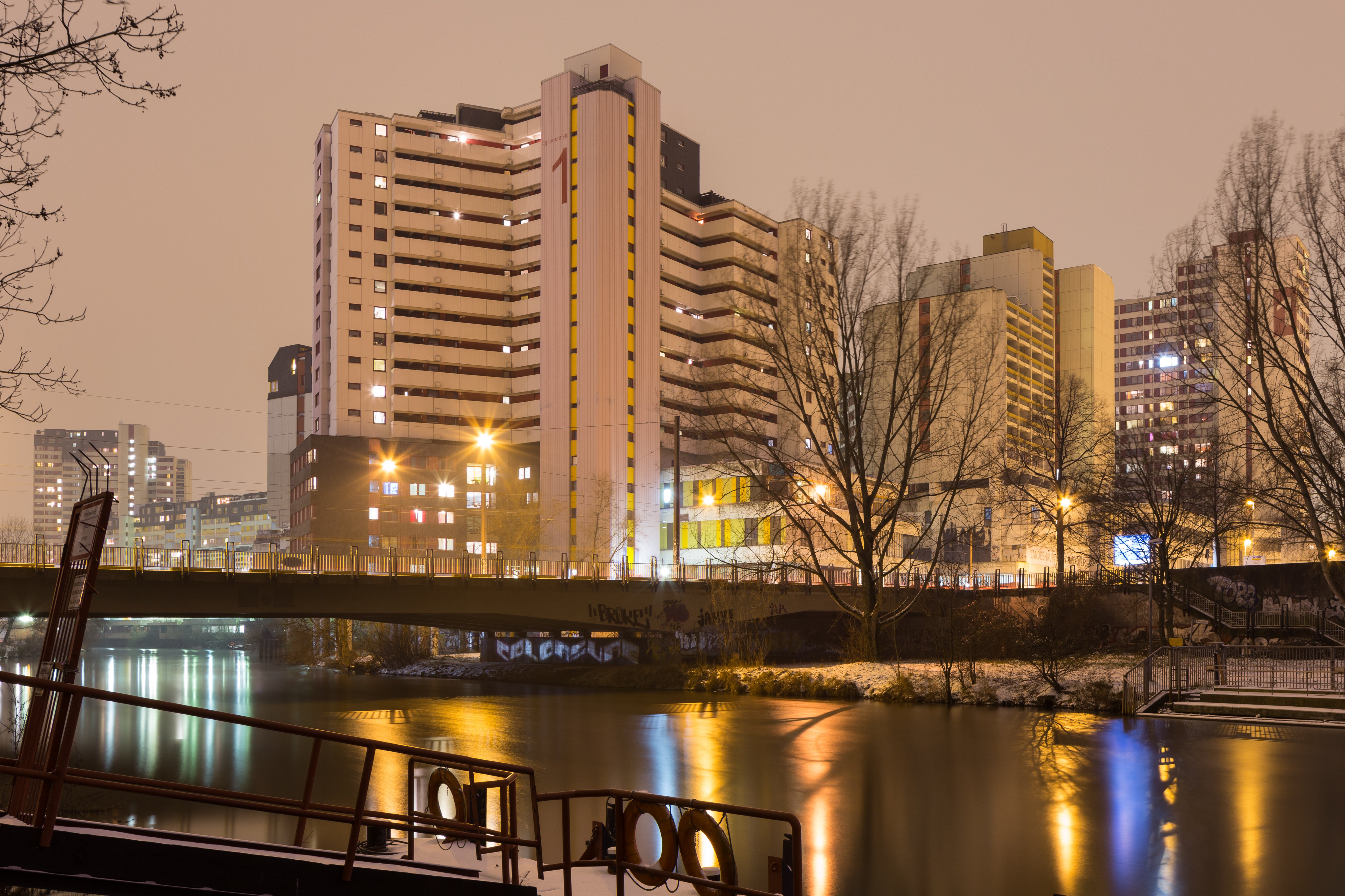 Ihme-Zentrum apartment complex located at Spinnereistrasse (on the bridge) with Ihme river in the foreground in Linden-Mitte quarter of Hannover, Germany.